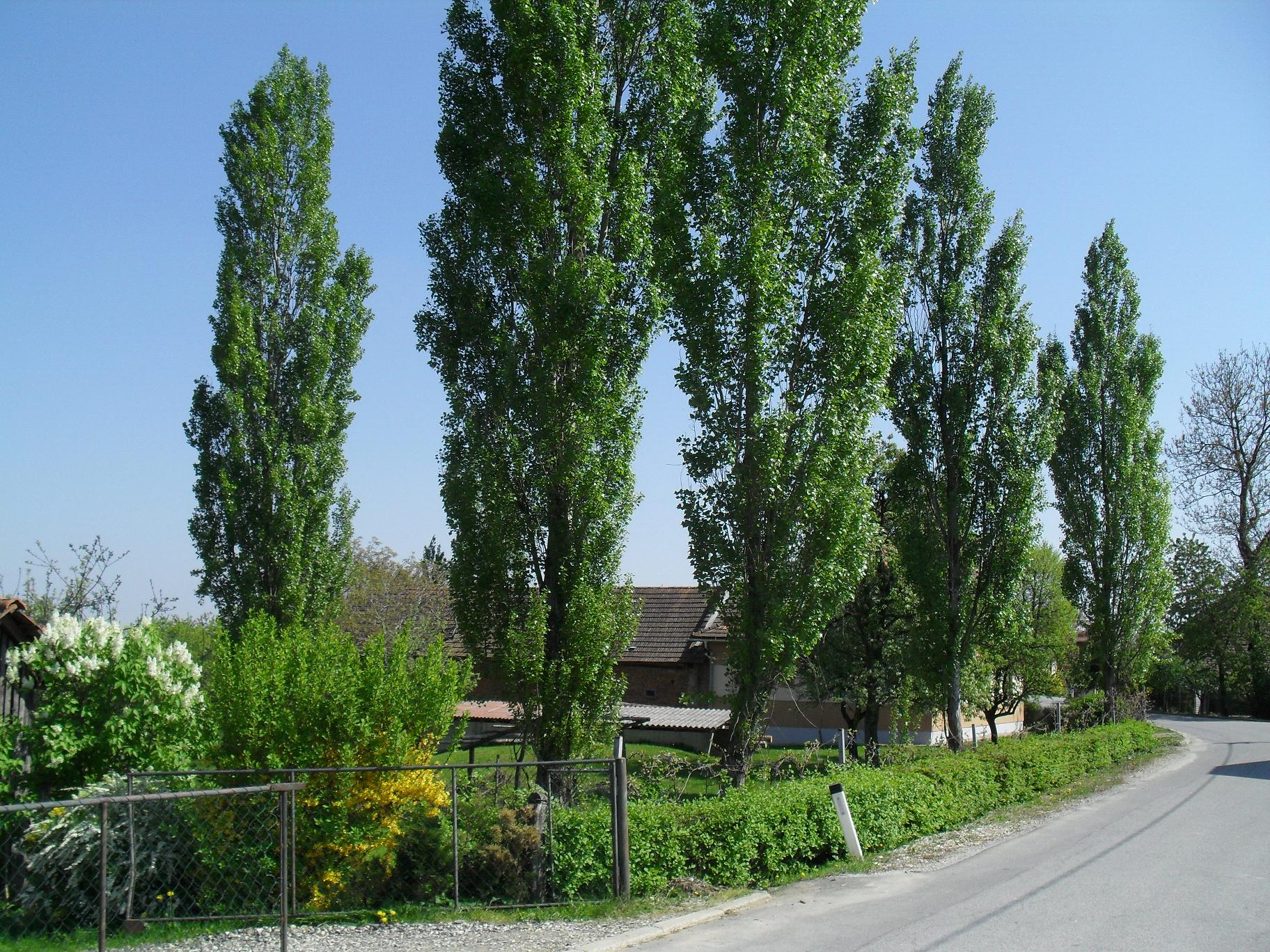 Firs in Ropoča